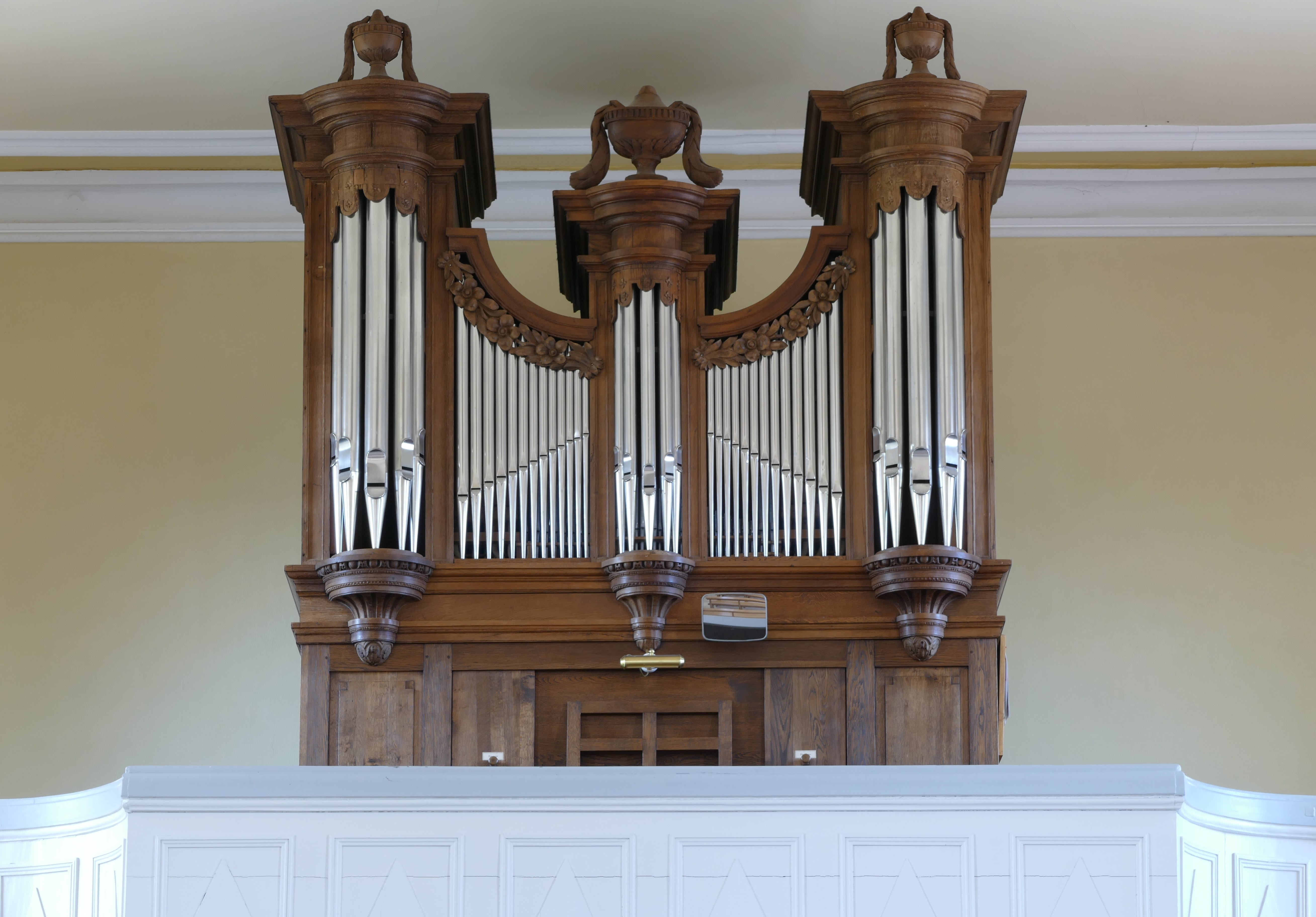 Alsace, Bas-Rhin, Richtolsheim, Église Saint-Arbogast (IA67010643). Orgue Callinet-Rabiny-Kriess (1808): This object is inscrit Monument Historique in the base Palissy, database of the French furniture patrimony of the French ministry of culture, under the references PM67001074, buffet PM67001075 buffet and IM67013587.